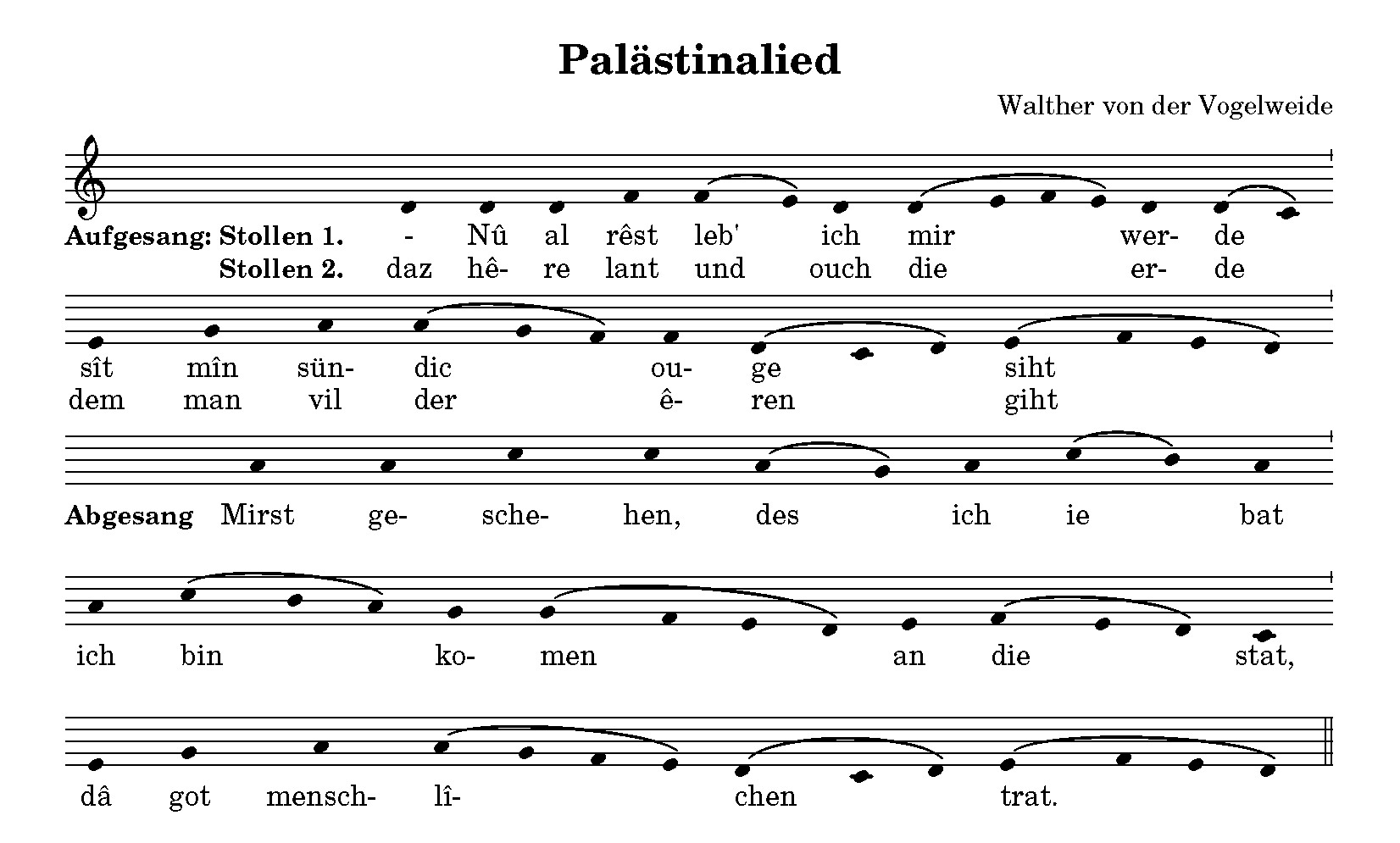 The melody of the Palästinalied by Walther von der Vogelweide